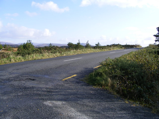 Looking SE along R259 Taken from a junction with a very minor road. Rough vegetation can be seen beyond the tarmac.